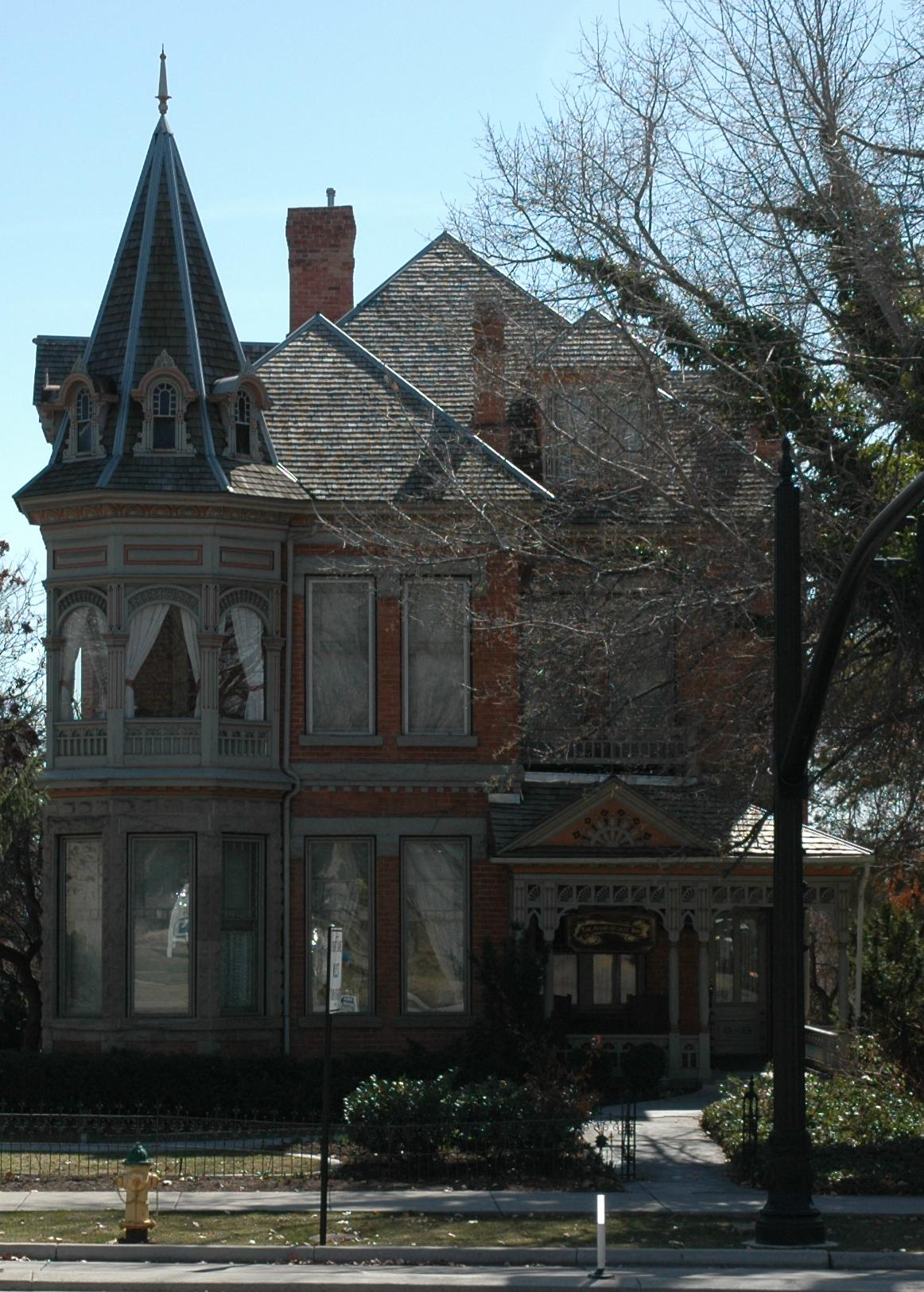 The Emanuel Kahn House, a historic home in Salt Lake City, Utah, United States, now operates as the Anniversary Inn bed and breakfast.